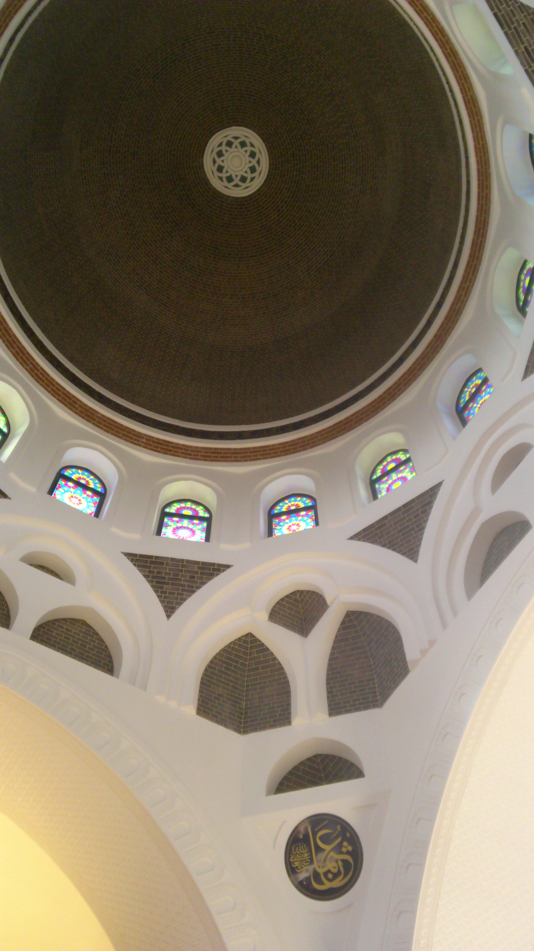 Part of the dome of the Oxford Centre for Islamic Studies, Marston Road, Oxford